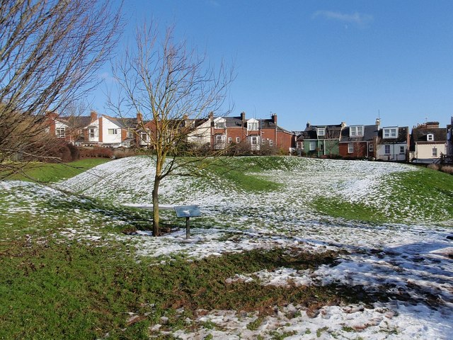 Danes Castle, Exeter This circular structure was thought to be the remains of a castle built by the Danes when they had Exeter under siege in 1003. In 1993 the castle was found to have been built by King Stephen in 1136. For more information, see David Cornforth’s site at , from which this information is taken. In spite of the fact that it owes its origins to the civil war of 1136-47, the earthwork still bears the name "Danes Castle". Its shape is handily picked out by the partly-melted snow that has fallen the previous day.